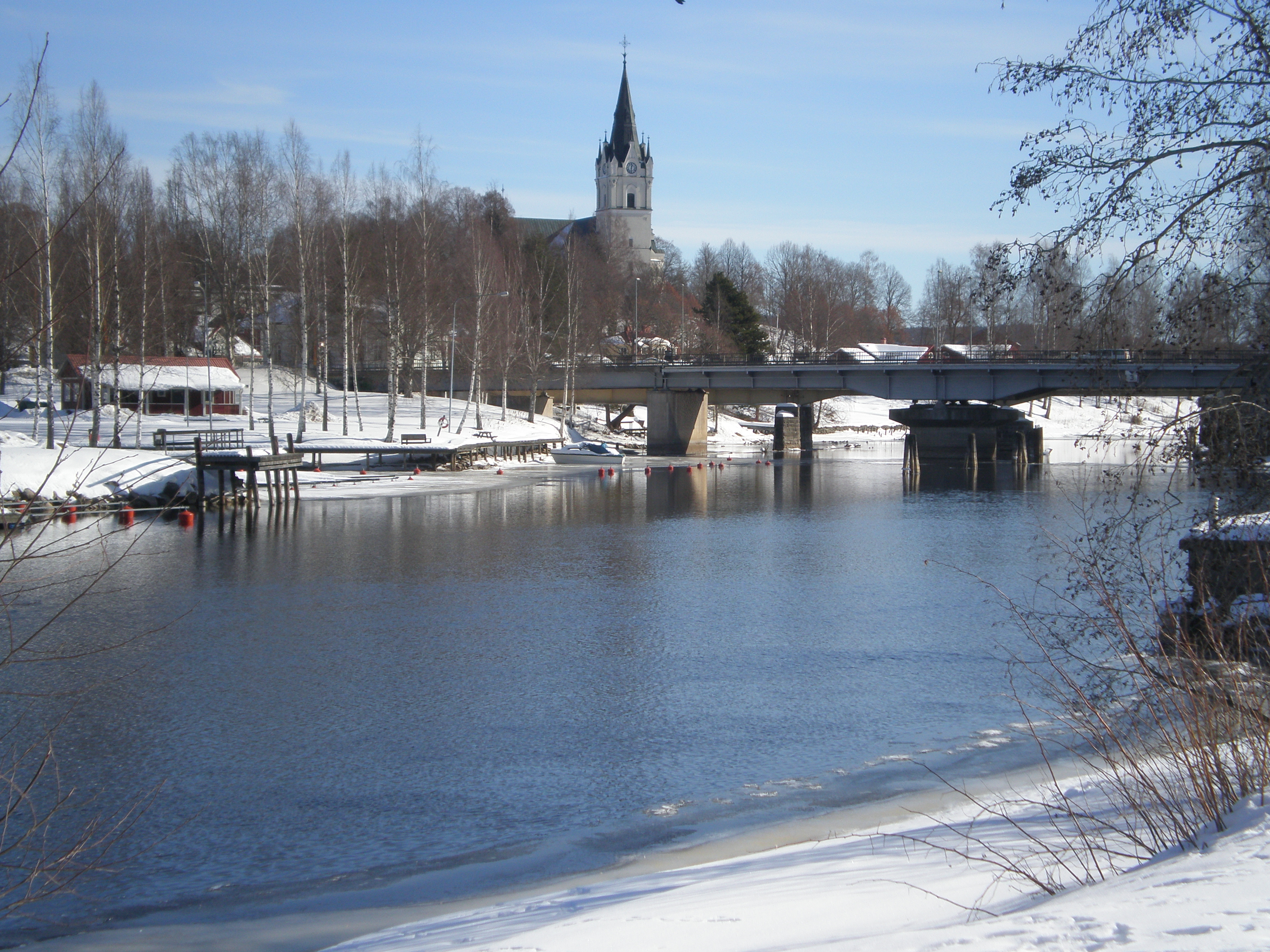 The sound Sunnesundet and Sunne church